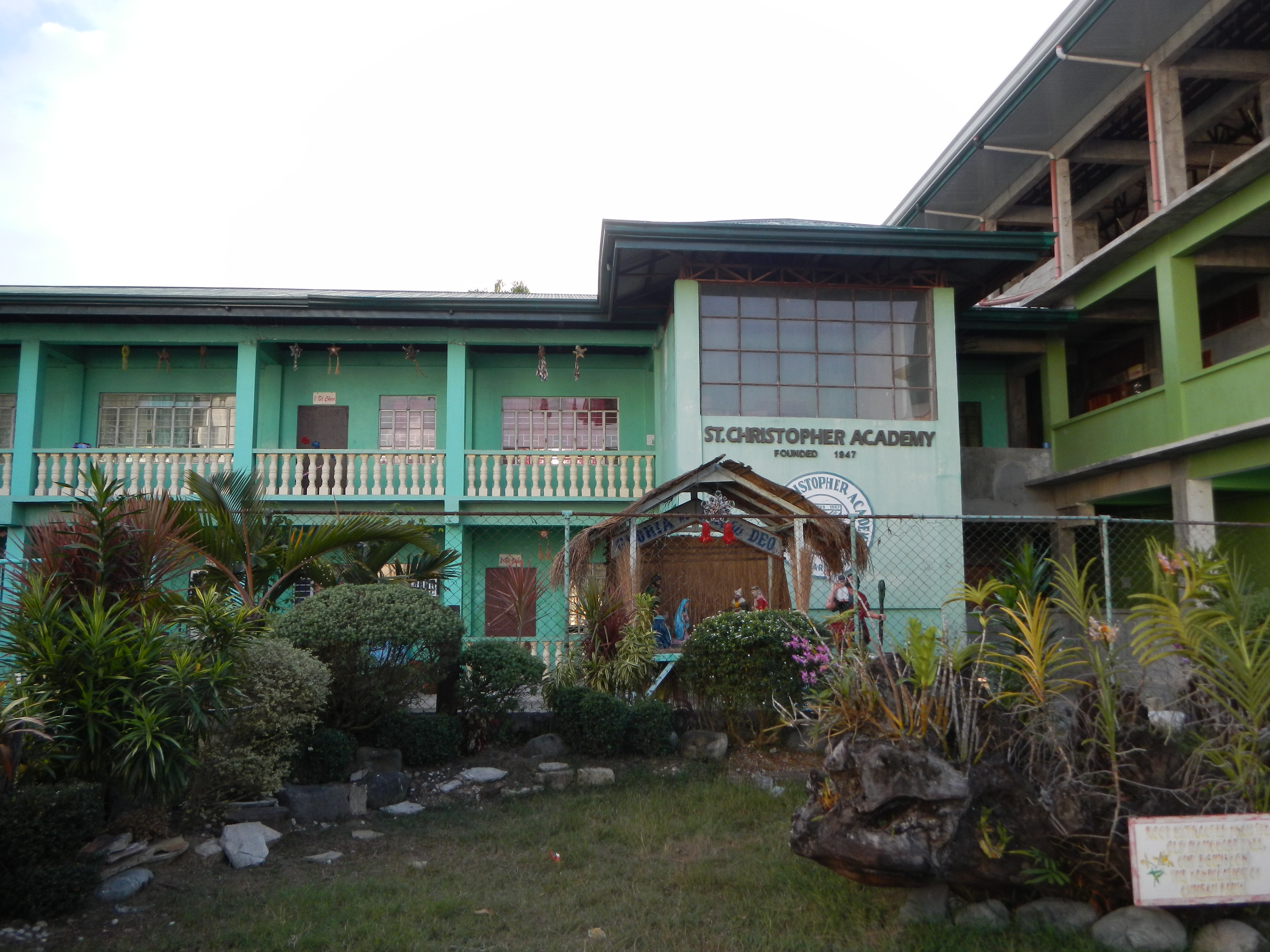 Upload Wizard -- (general description of landmarks, town, church) - Town Proper - Bangar Town Plaza, Bangar Town Hall in front of the Saint Christopher Parish Church of Bangar, La Union, which belongs to the Roman Catholic Diocese of San Fernando de La Union, [1] Vicariate of St. Nicholas Vicar Forane: Father Arnulfo T. Tagorda F-1701 2519 La Union, PhilippinesTitular: St. Christopher, July 25 Parish Priest: Father Arnulfo T. Tagorda Assistant Parish Priest: Father Leo C. Nedic - beside the St. Christopher Academy.[2]